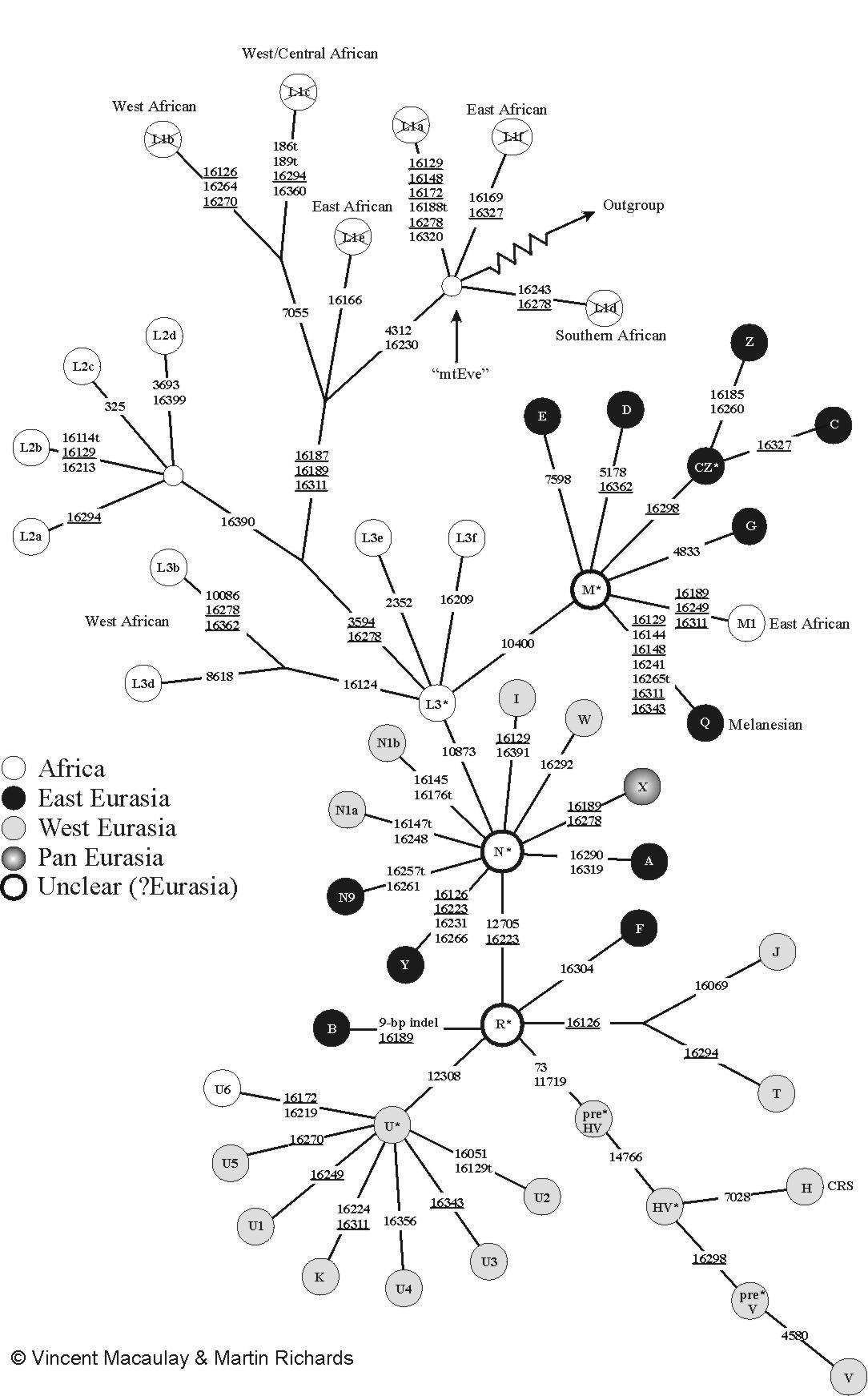 Detailed phylogeny of the human mtDNA haplotypes. From Vincent Macaulay and Martin Richards. Please cite both if you use this source.